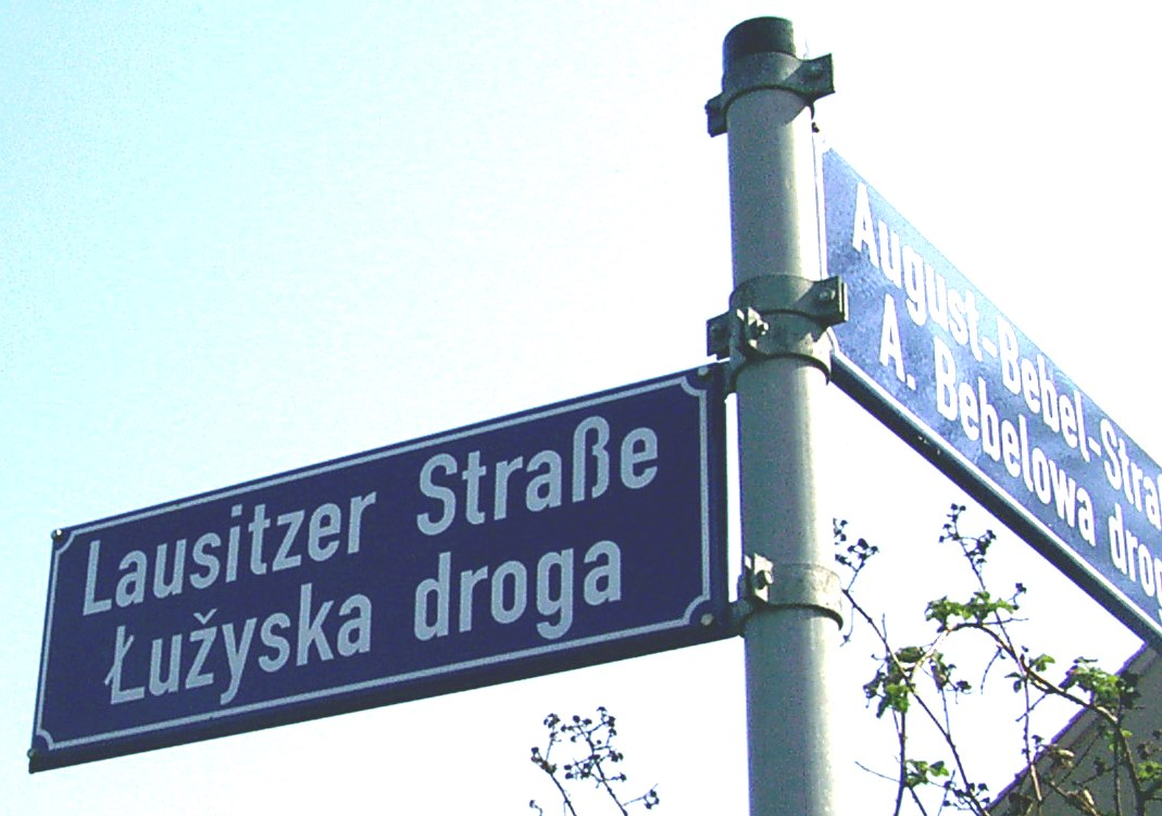 Bilingual, German-Sorbian street sign in the city Cottbus in Brandenburg, Germany.